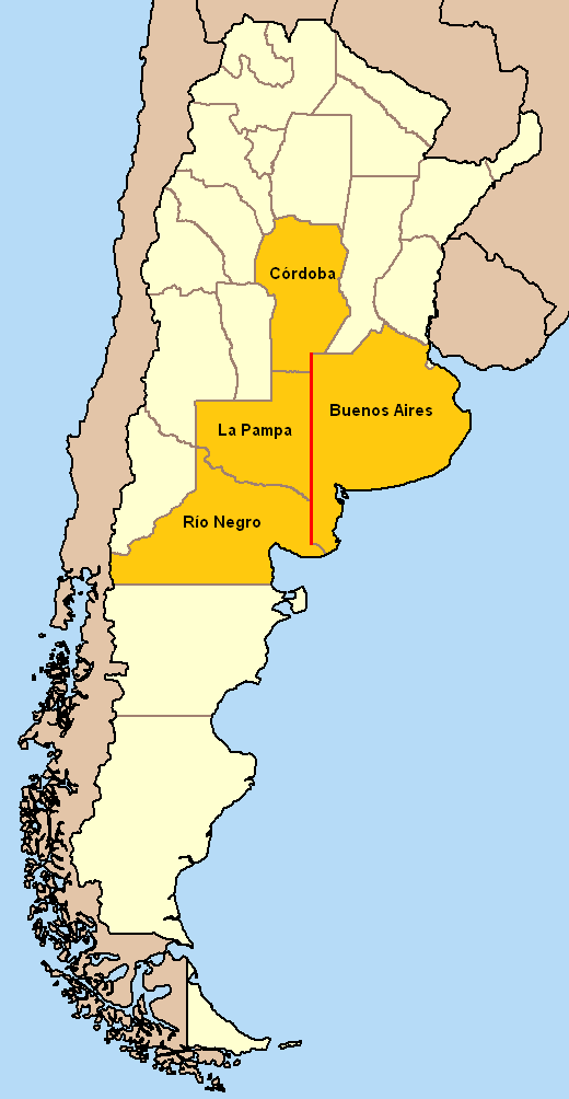 Map showing the location of the Meriadiano V, defining the border among Argentinian provinces.